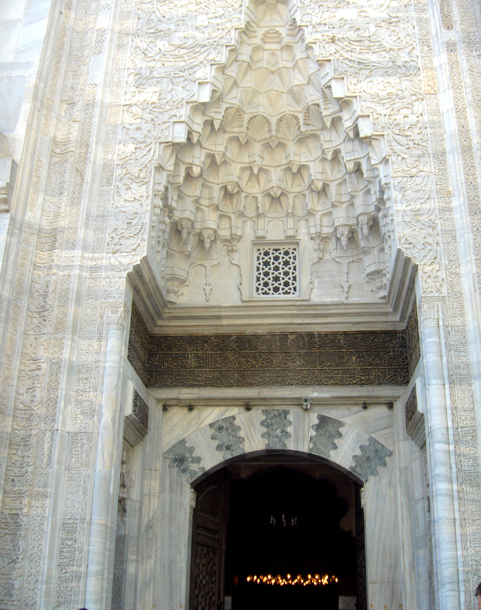 Muqarnas portal of the Yeşil Cami (Green mosque) of Bursa, Turkey